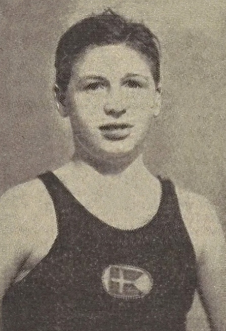 Ragnhild Hveger.